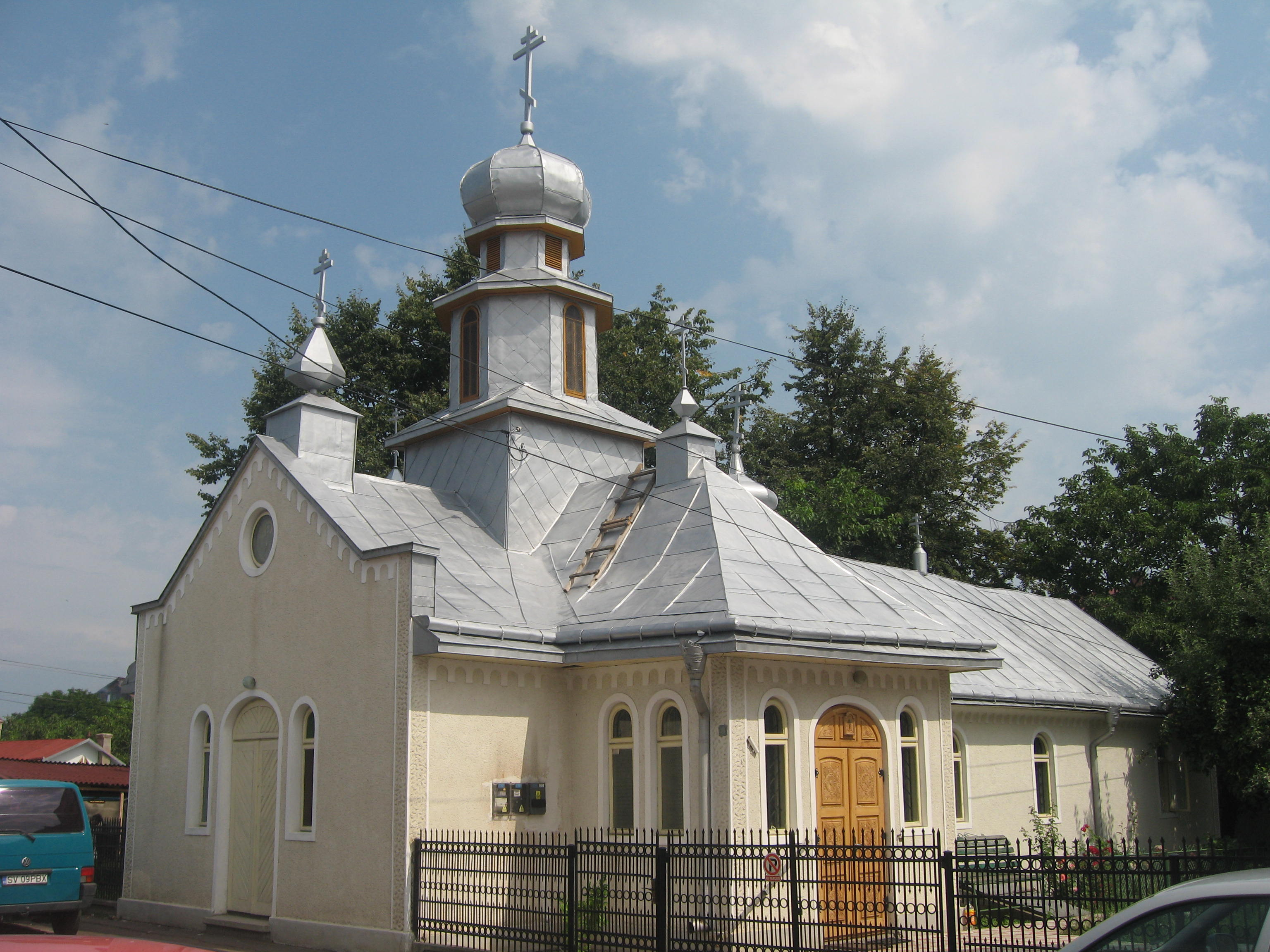 Russian church in Rădăuți